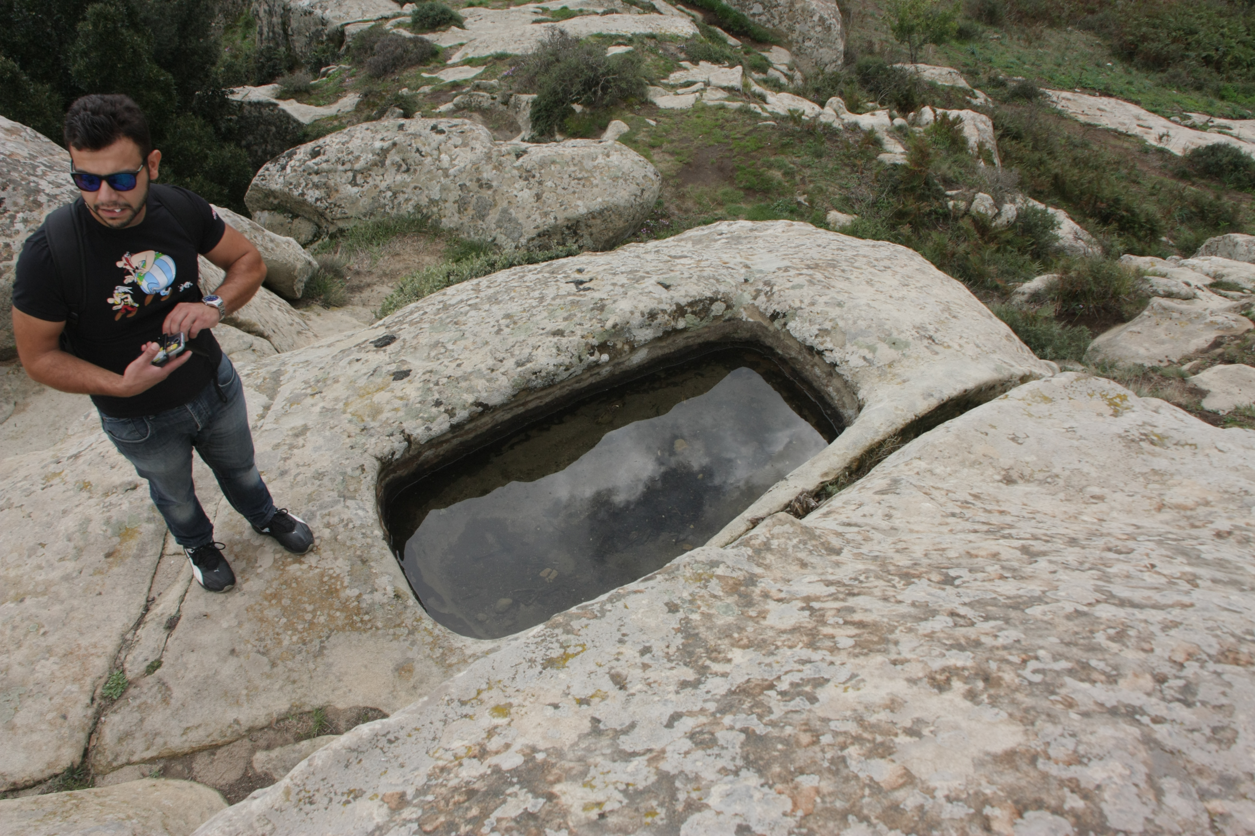 Natural rock formations.